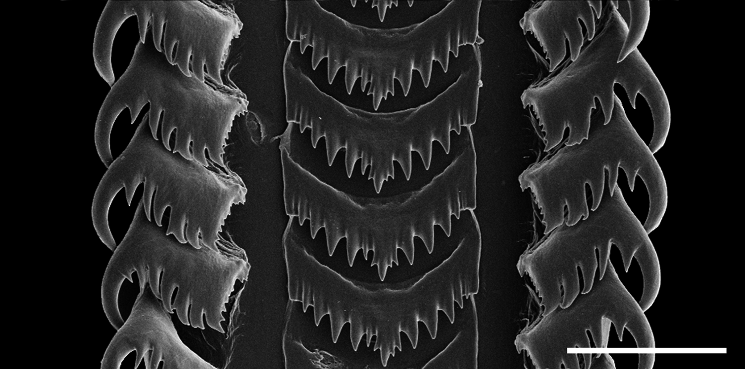 SEM photo of radula of Nassodonta dorri. Locality: Vietnam, MNHN, uncataloged. Scale bar is 100 μm.